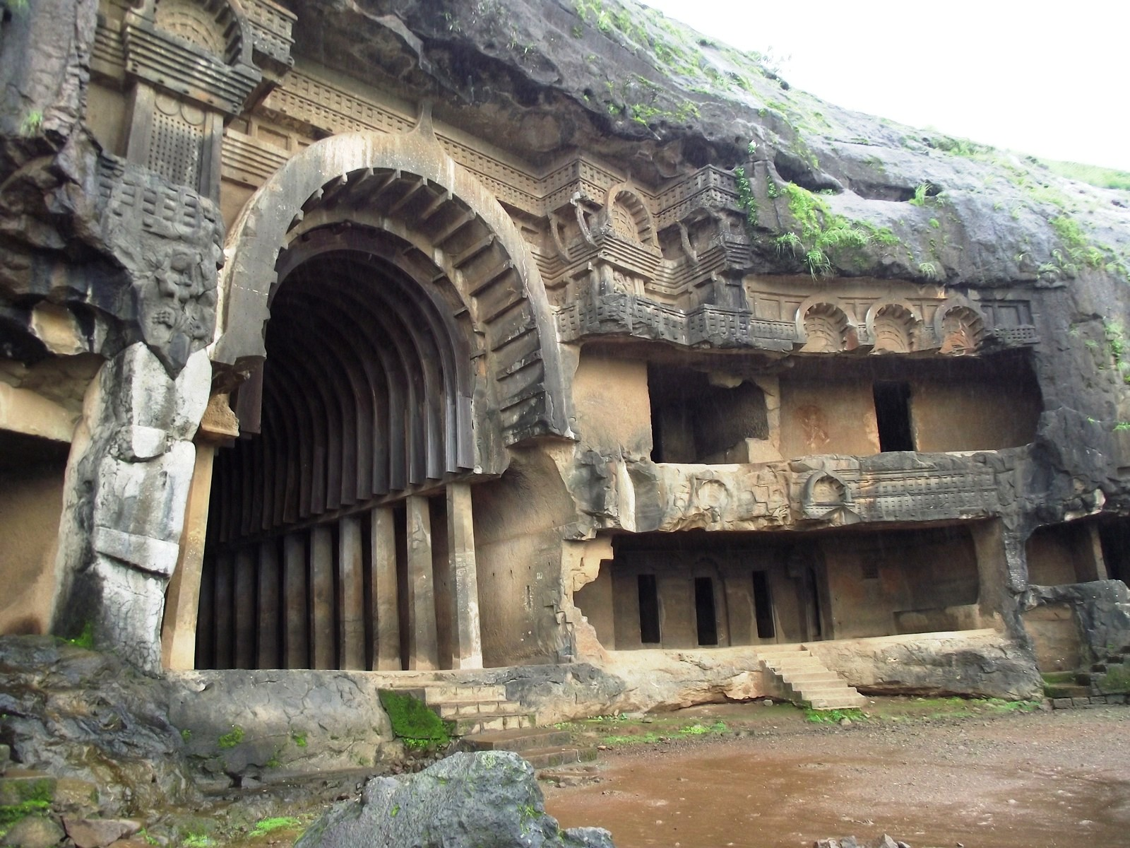 Cave temple and Inscription